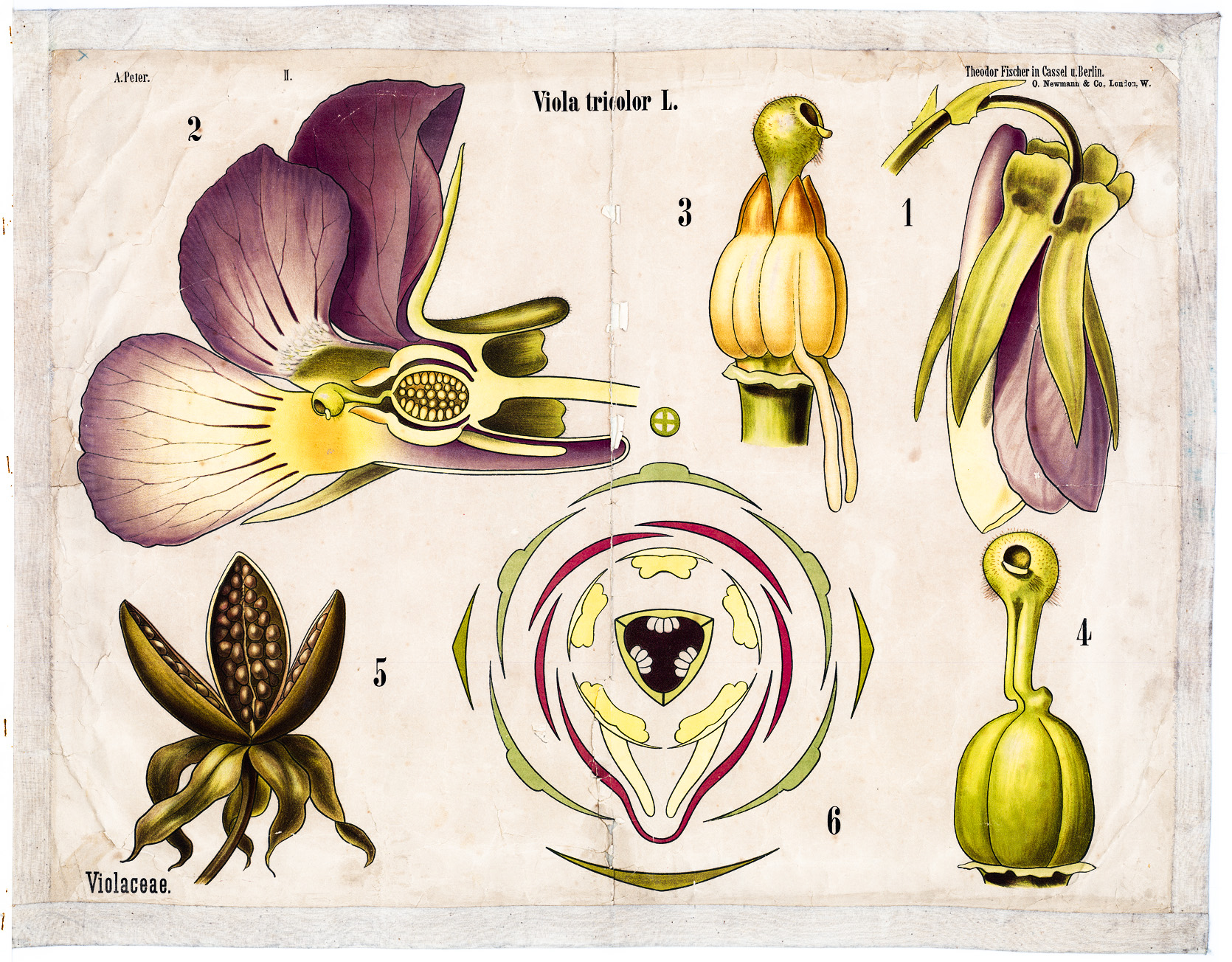 For background and links, please see